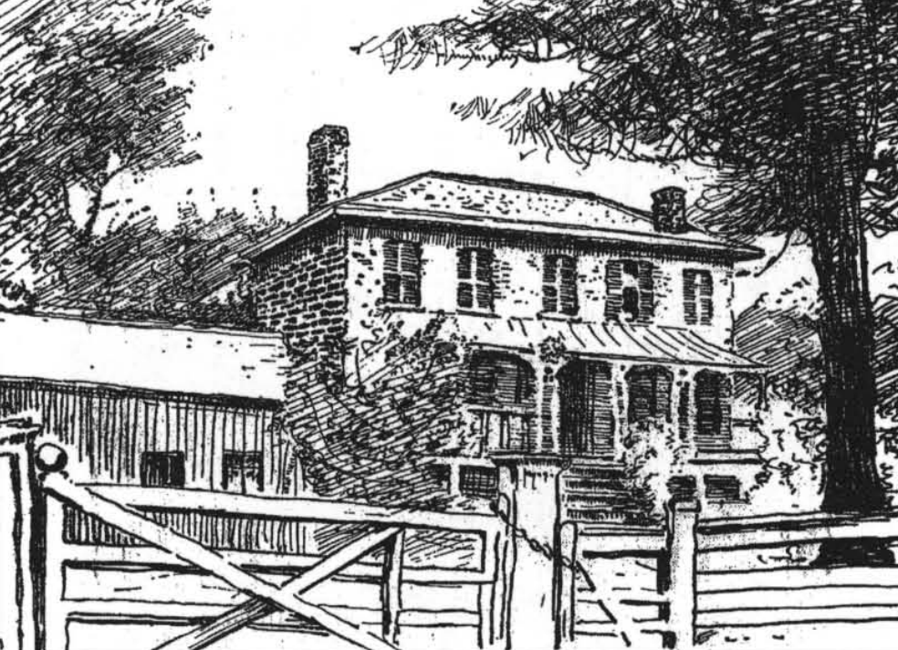 Springmount, 1830-1883 In 1830, Bartholomew Bull constructed the first brick house in York Township on the north side of Davenport Road, just west of today's Spring mount Avenue. The name of the farm may have been suggested by the Garrison Creek; its two branches flowed through the Bull property. Robertson, 3: 28